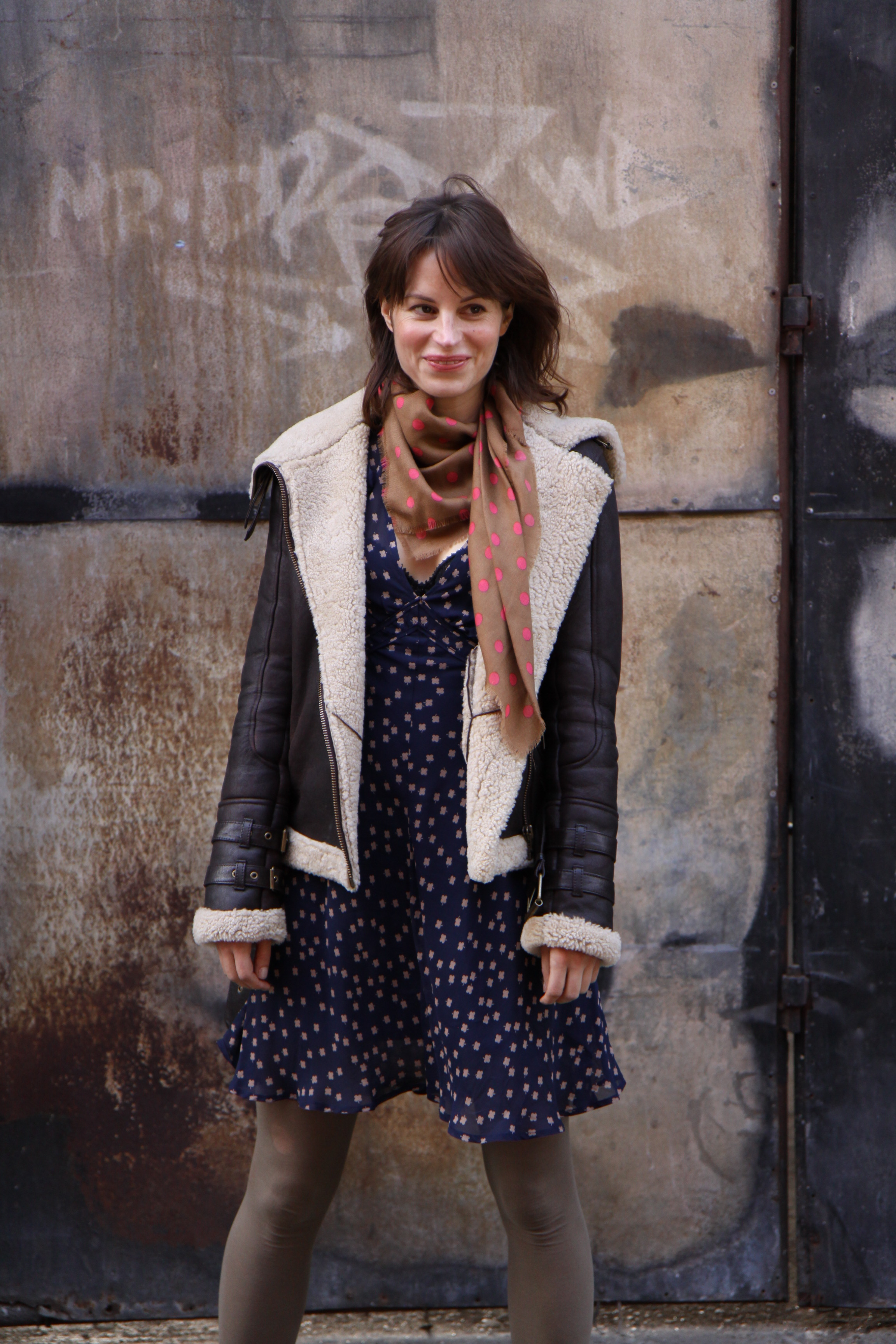 es Yulia. photo by Daniel Mayrit.